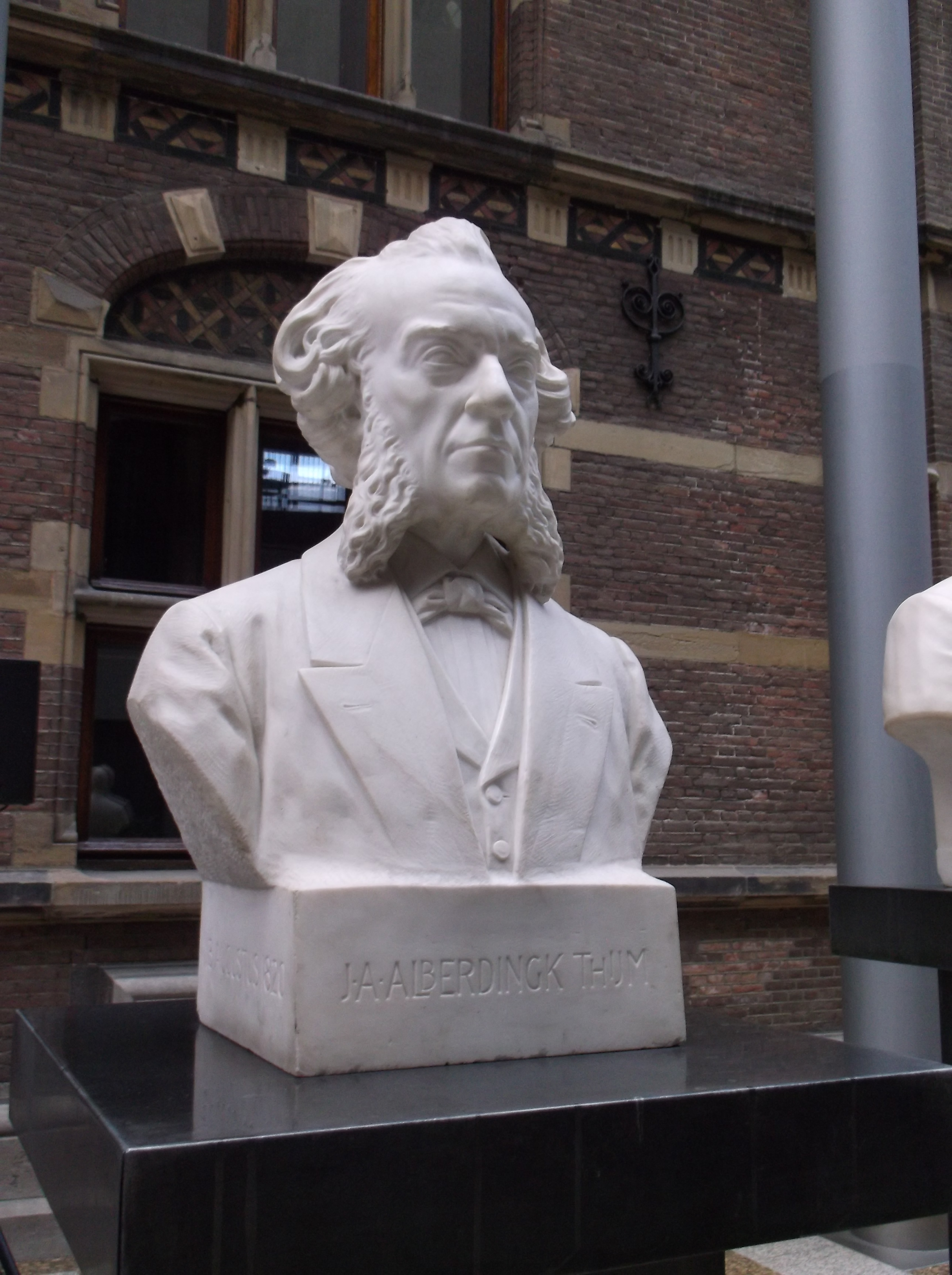 Buste in the Statenpassage in the building of the Dutch lower house.